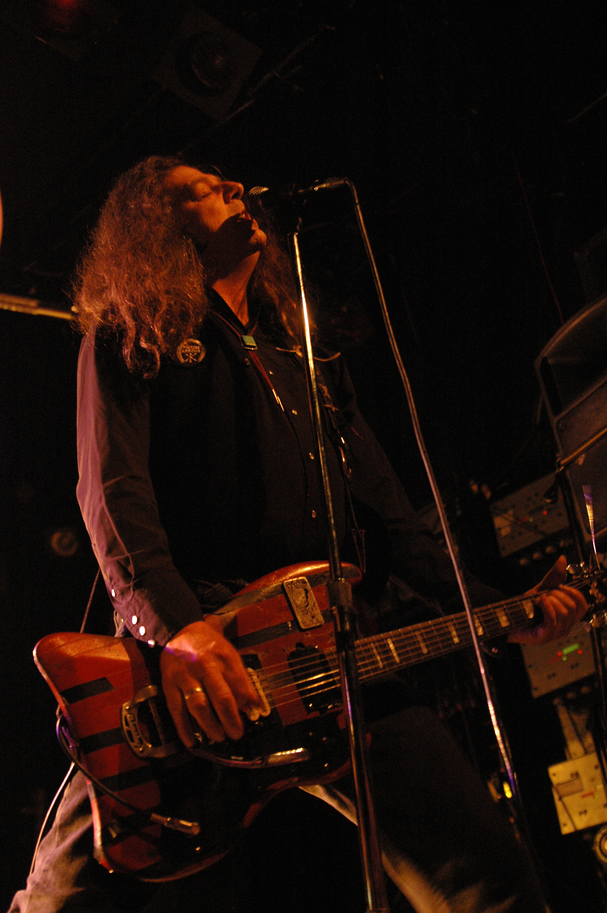 Fred Cole Pierced Arrows gig in Vera, Groningen, the Netherlands Guild S 200 Thunderbird guitar